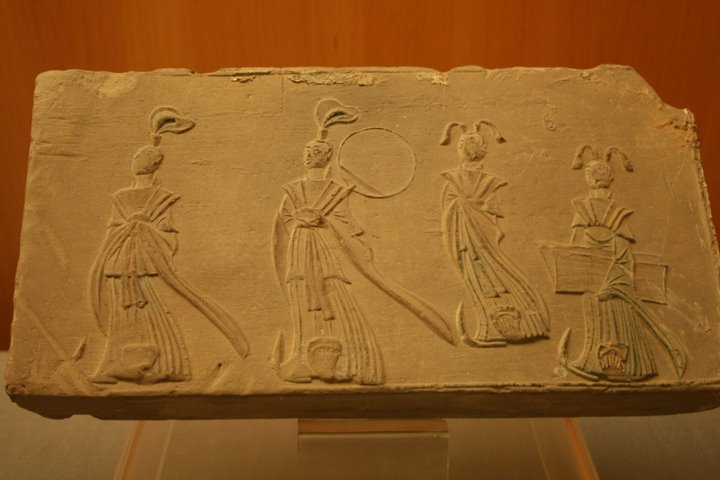 Relief scene on a tomb brick, from the Chinese Han Dynasty.